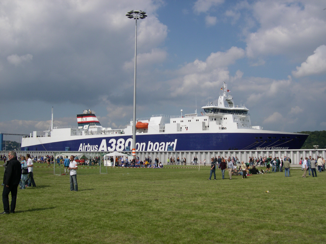 French Transport ship for the Airbus A380, "Ville de Bordeaux" at Airbus familiy day 2005 in Hamburg, Germany. IMO Number: 9270842 MMSI Number: 228084000 Callsign: FZCE Length: 154 m Beam: 24 m